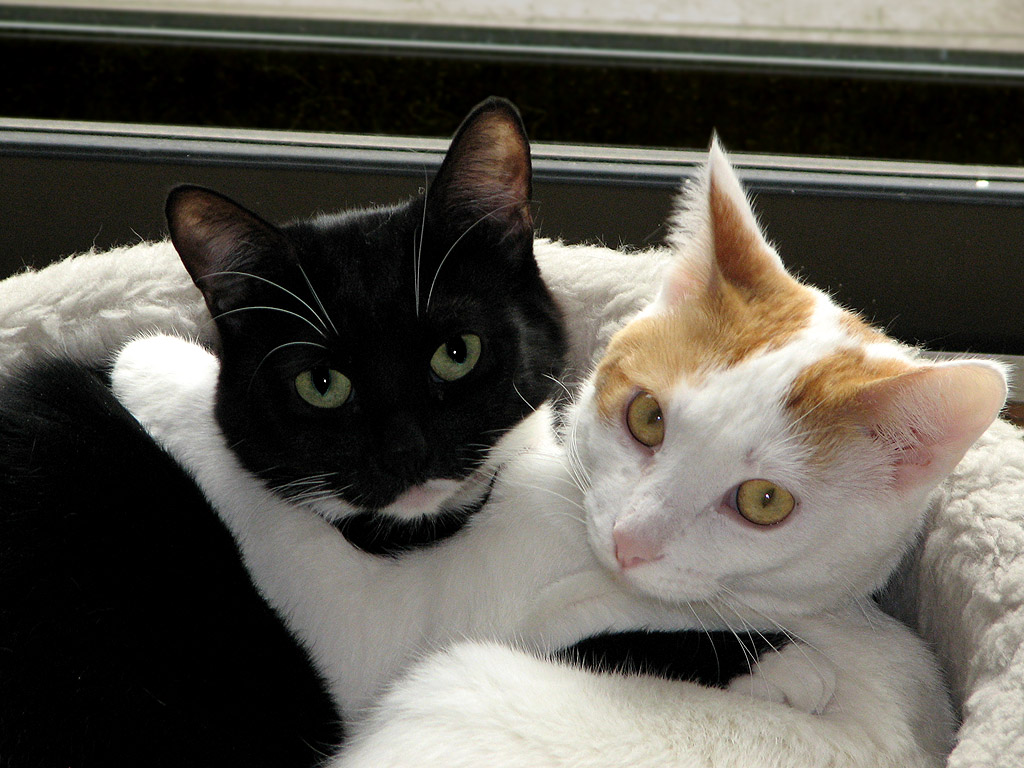 Cats - Hugs and love. They do have two beds... they just prefer the same one.